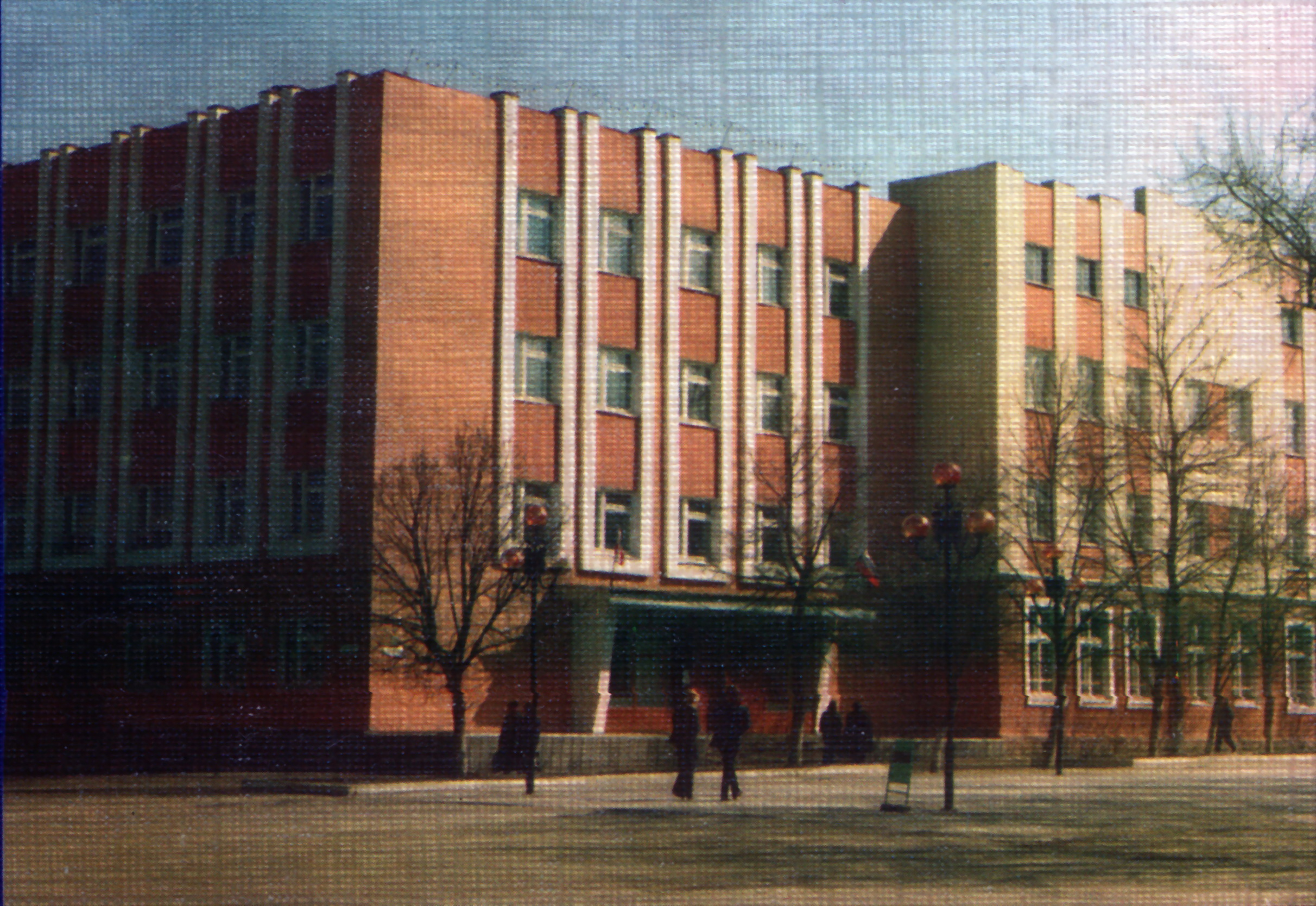 The case of physical and mathematical faculty of Balashovsky branch of the Saratov state university of name Н. branch of the Saratov state university of name N. G.Chernyshevsky